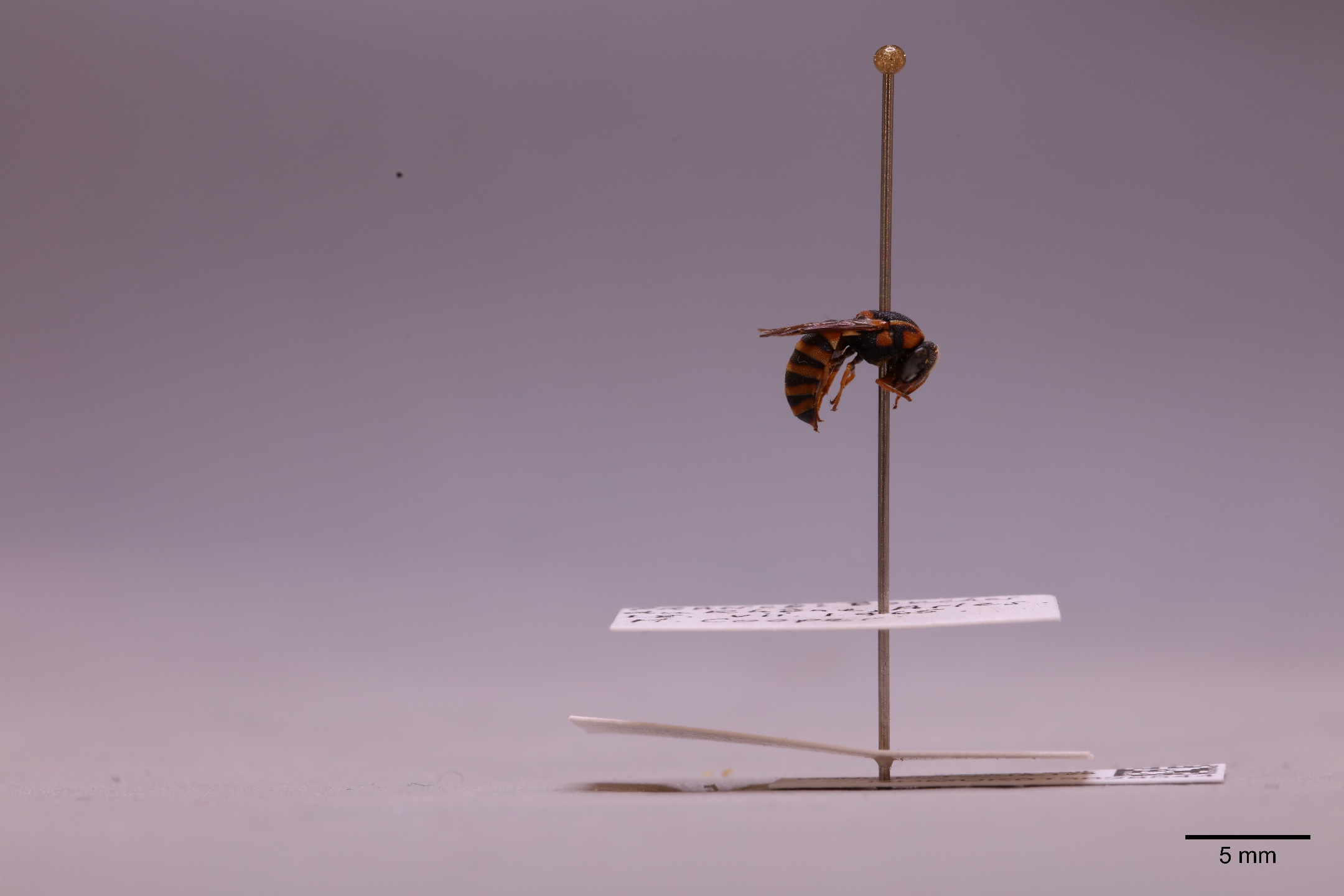 Celonites mayeti Richards, 1962 - Collected in 18 vii 1965 in Arles (Bouches du Rhône, France) by Mr Martin Cooper ; British Natural History Museum Specimen ; Catalogue number : BMNH(E)-013628544